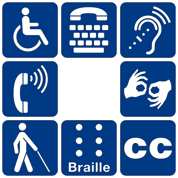 A collection of pictograms used by the United States National Park Service. A package containing all NPS symbols is available at the Open Icon Library.